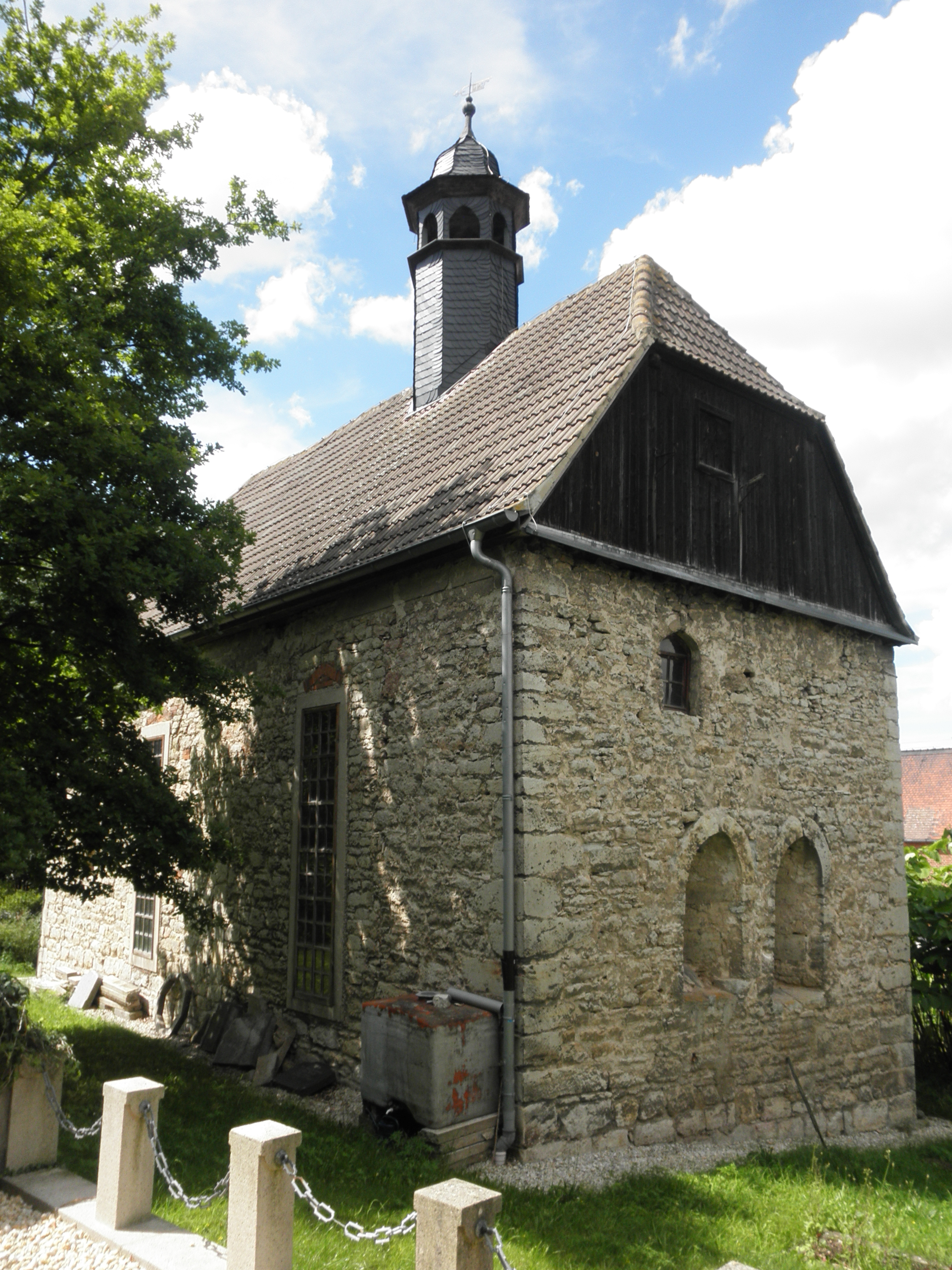 Church in Lachstedt (Schmiedehausen) in Thuringia